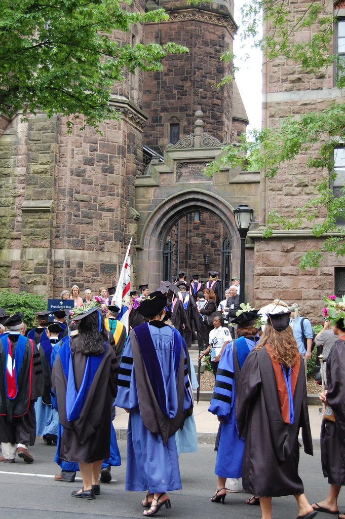 A procession of graduates at a Yale University commencement ceremony in 2007.